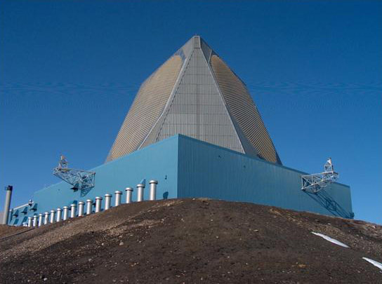 12 Space Warning Squadron AN/FPS-120, two-sided, solid-state, phased-array radar system (SSPARS)at Thule Air Base